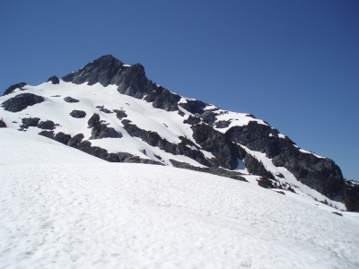 Golden Ears as seen from the standard hike to the summit.